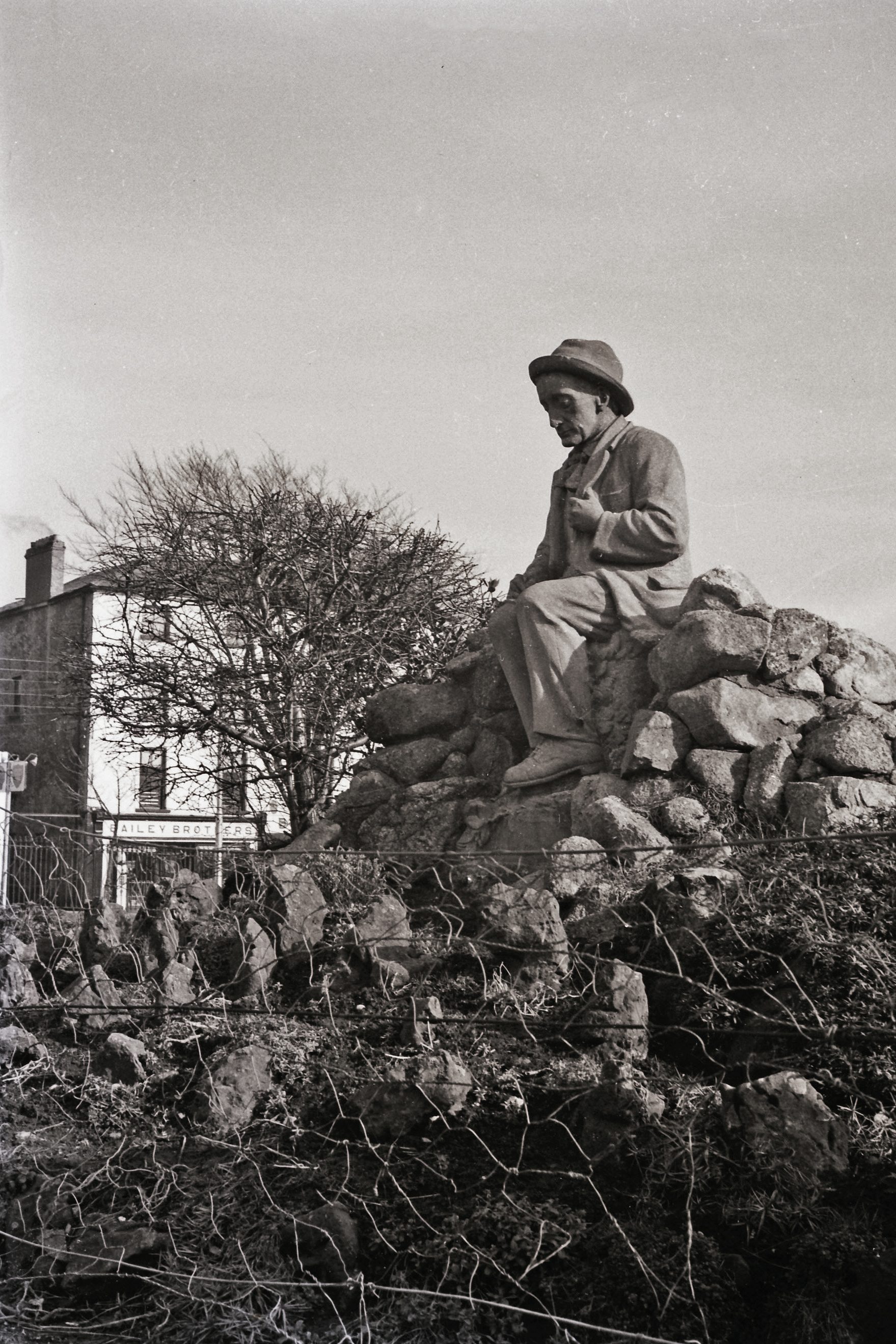 Statue of Pádraic Ó Conaire in Eyre Square, Galway 1950s